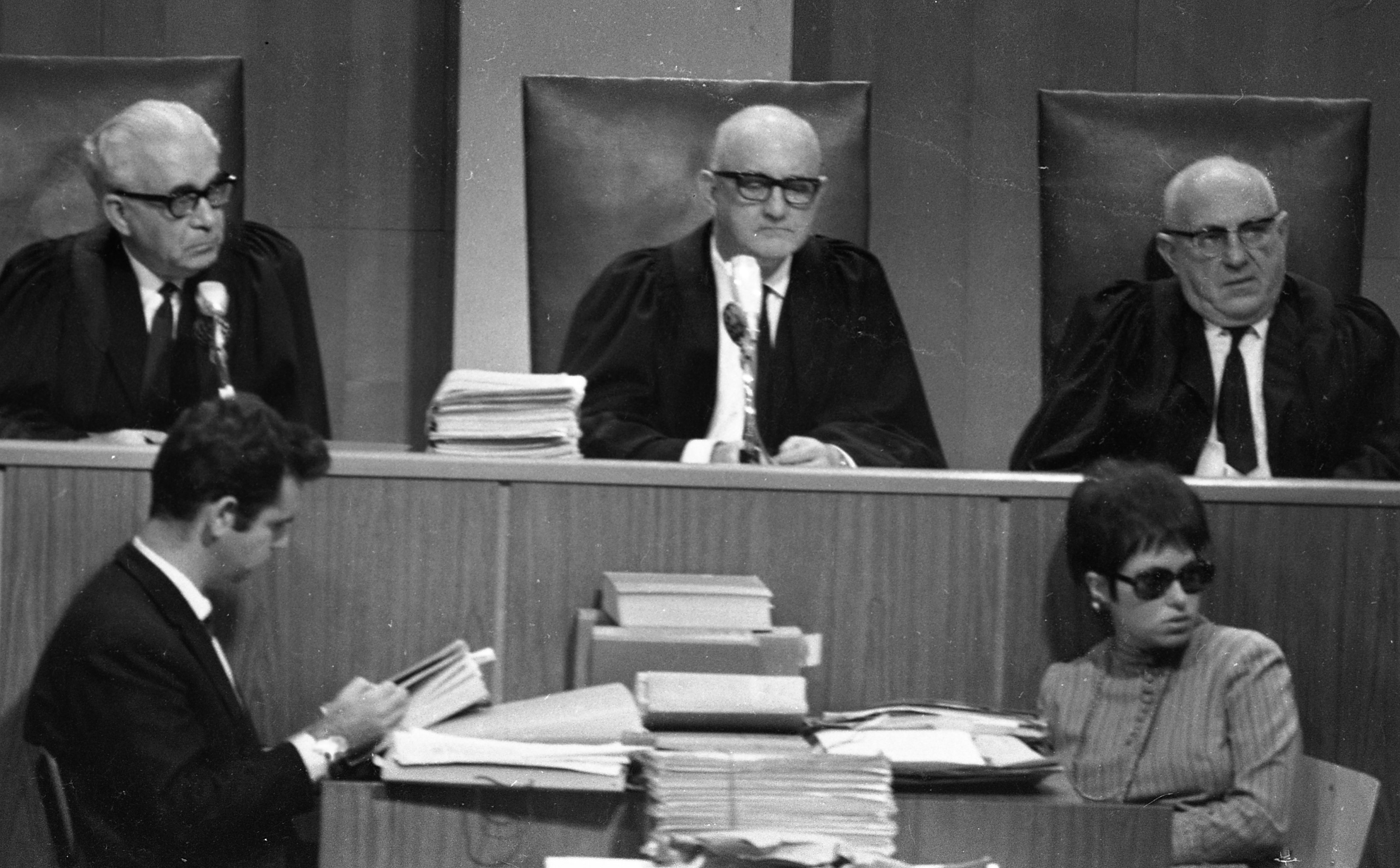 Denis Michael Rohan trial.